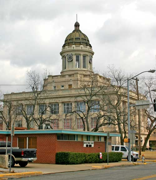 Carter County Courthouse, Downtown Ardmore.